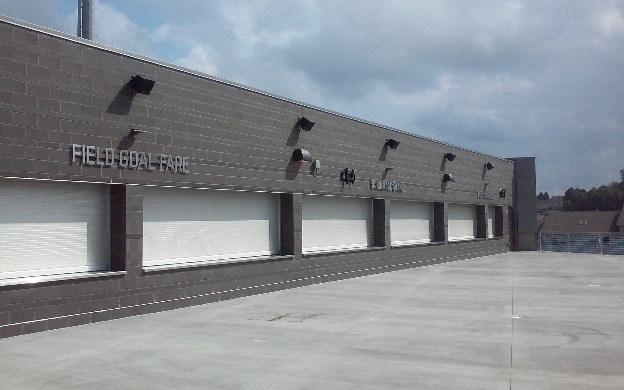 Renovations to the east concourse were completed in 2016.